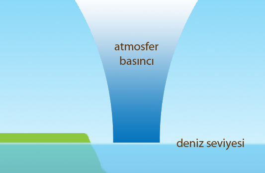 atmospheric pressure diagramTürkçe: atmosfer basıncı şeması